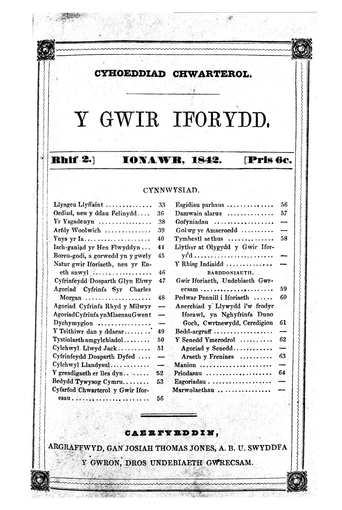 The quarterly Welsh language general periodical of the Wrexham Union of the True Ivorites Society. The periodical's main contents were articles on history, the natural world, geography,the Welsh language and on the responsibilities and activities of True Ivorites and their societies.